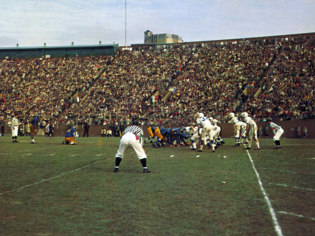 An extra point try for the Pitt Panthers of the University of Pittsburgh in a football game at Pitt Stadium against Penn State on November 27, 1958.